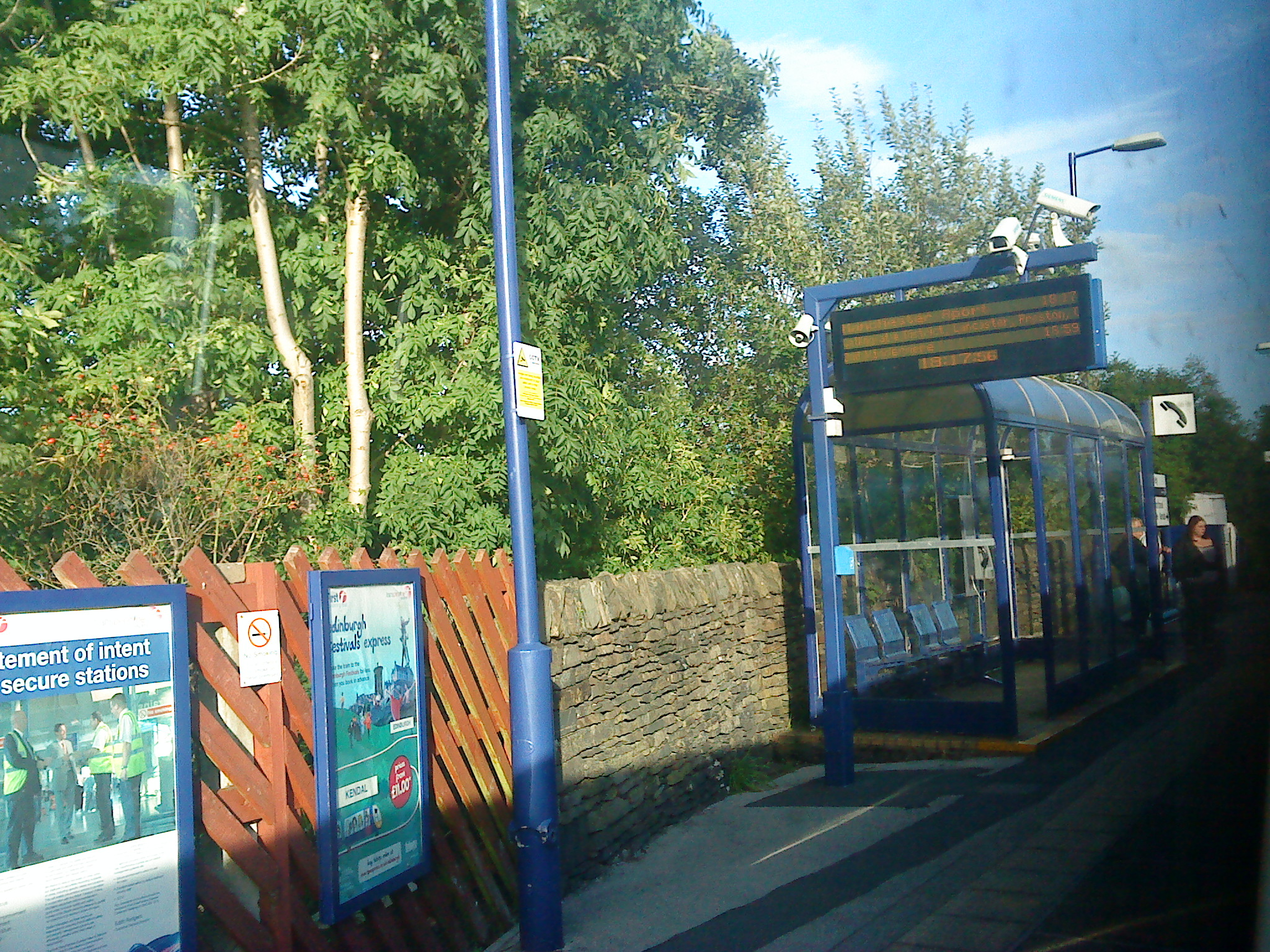 View of Staveley railway station from a train in 2009